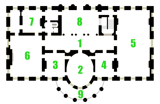 Floor plan of the White House first floor.